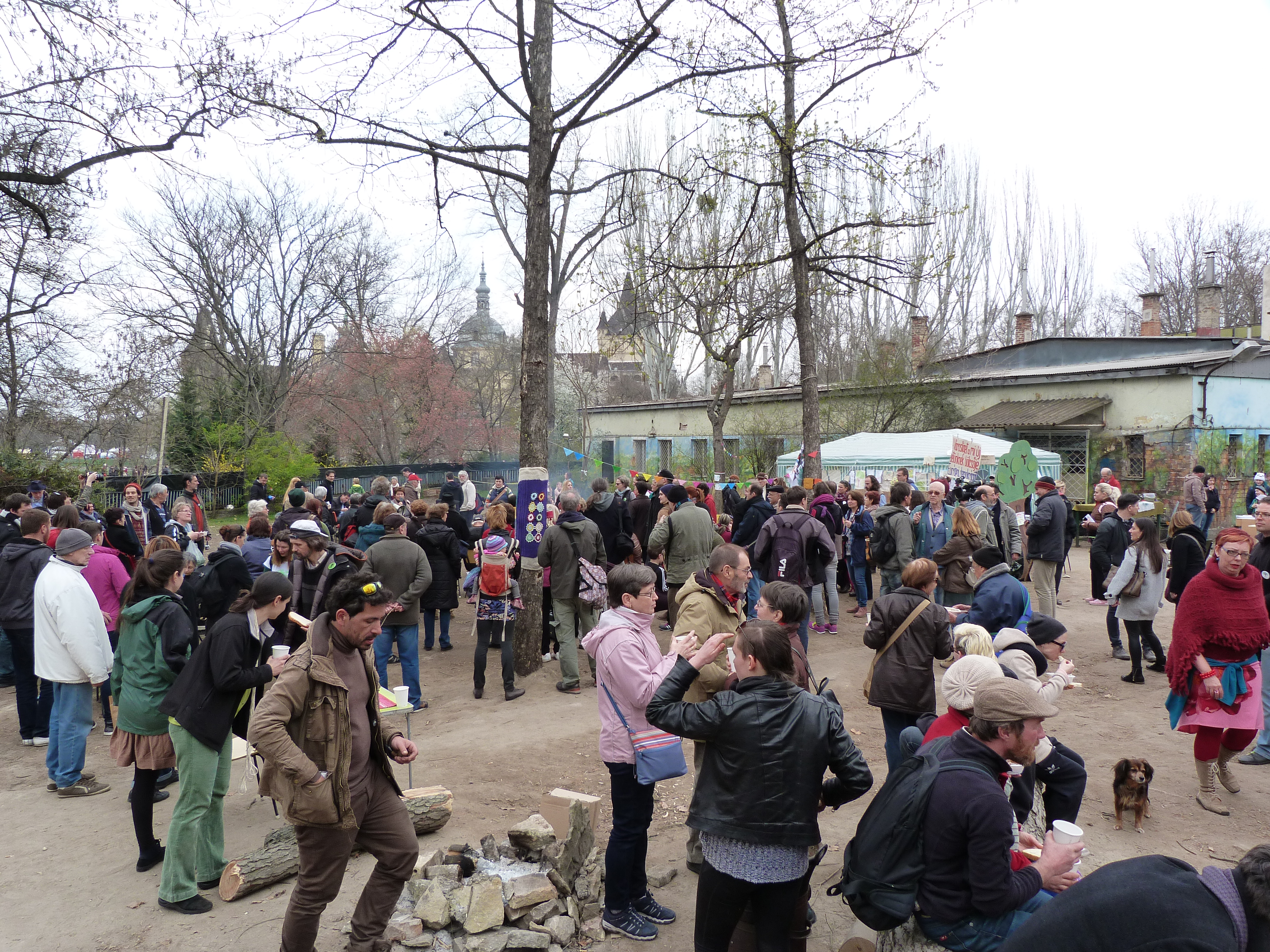 Taken on the 28th of March, 2016. Eastern Monday. Városliget, Budapest, Hungary. Civil groups against Liget Project. Gayer Zoltán, Garay Klára, Pákozdi Imre. Demonstrators occupied Kertem. Sources: Támogatás a Liget projectnek